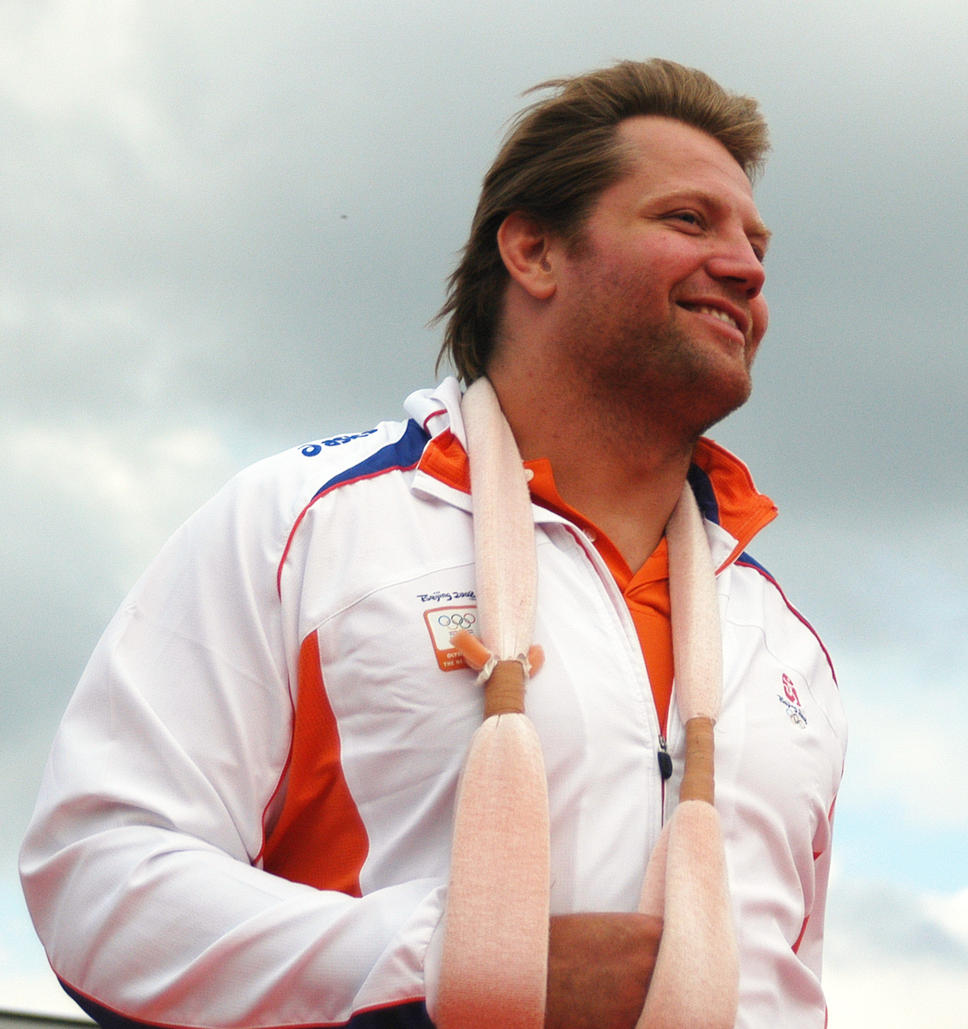 Dennis van der Geest at the Olympic welcome in the Olympic Stadium in Amsterdam, the Netherlands.